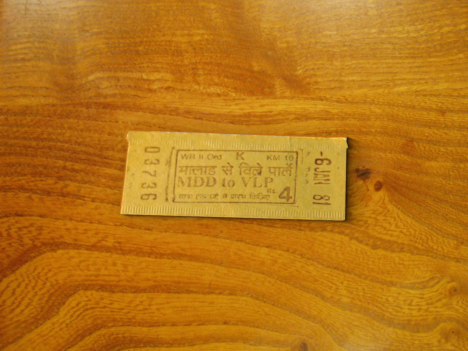 A photo from my collection of train tickets from India this one being from 1981, from the Bombay suburban rail .